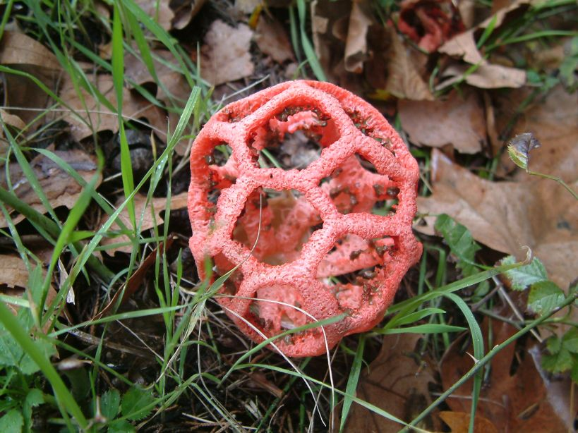 A mature Clathrus ruber (Red Cage fungi) specimen. Photo was taken by me in TUBITAK-MAM's garden , Gebze/Kocaeli TURKEY.